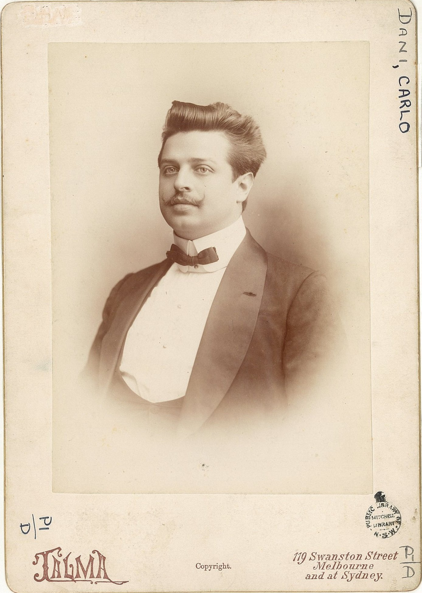 Format: Photograph Find more detailed information about this photograph: .au/item/itemDetailPaged.aspx?itemID=447334 Search for more great images in the State Library's collections: .au/search/SimpleSearch.aspx From the collection of the State Library of New South Wales